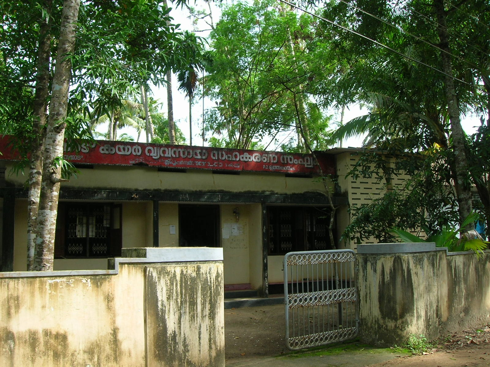 It's the photo of Coir Vyavasaya Co-operative Society (CVCS). Taken by Amal Dev M.V.